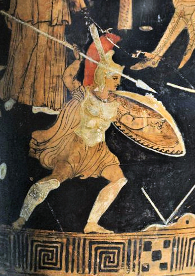 Achilles fighting against Memnon Leiden Rijksmuseum voor Oudheden